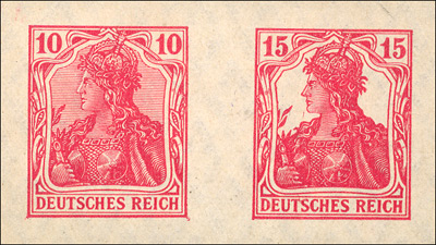 British forgeries of Germania postage stamps, 10 and 15 pfennigs, 1918